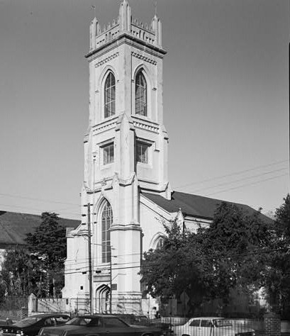 Unitarian Church (Charleston, South Carolina) (cropped)